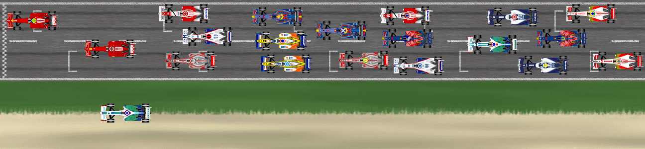 2008 F1 season Race result of 2008 French Grand Prix in Magny Cours